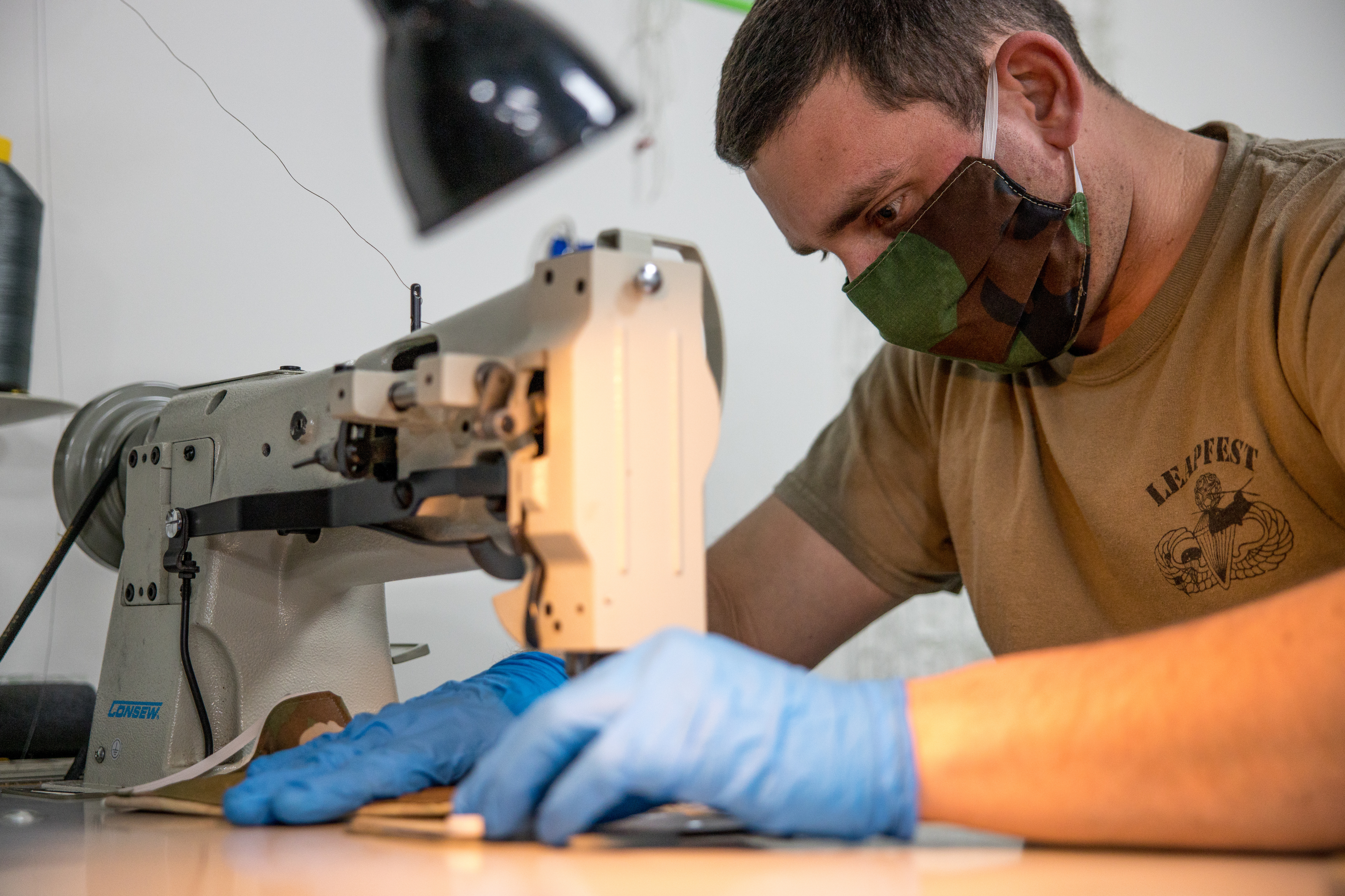 Rhode Island National Guardsmen assigned to the 56th Quartermaster Rigger Support Team sew face masks, April 6, 2020, at Camp Fogarty, East Greenwich, R.I. The riggers ensured R.I.’s guardsmen had the masks required to slow the spread of COVID-19 and protect the force. (Army National Guard Photo by PFC David Connors)